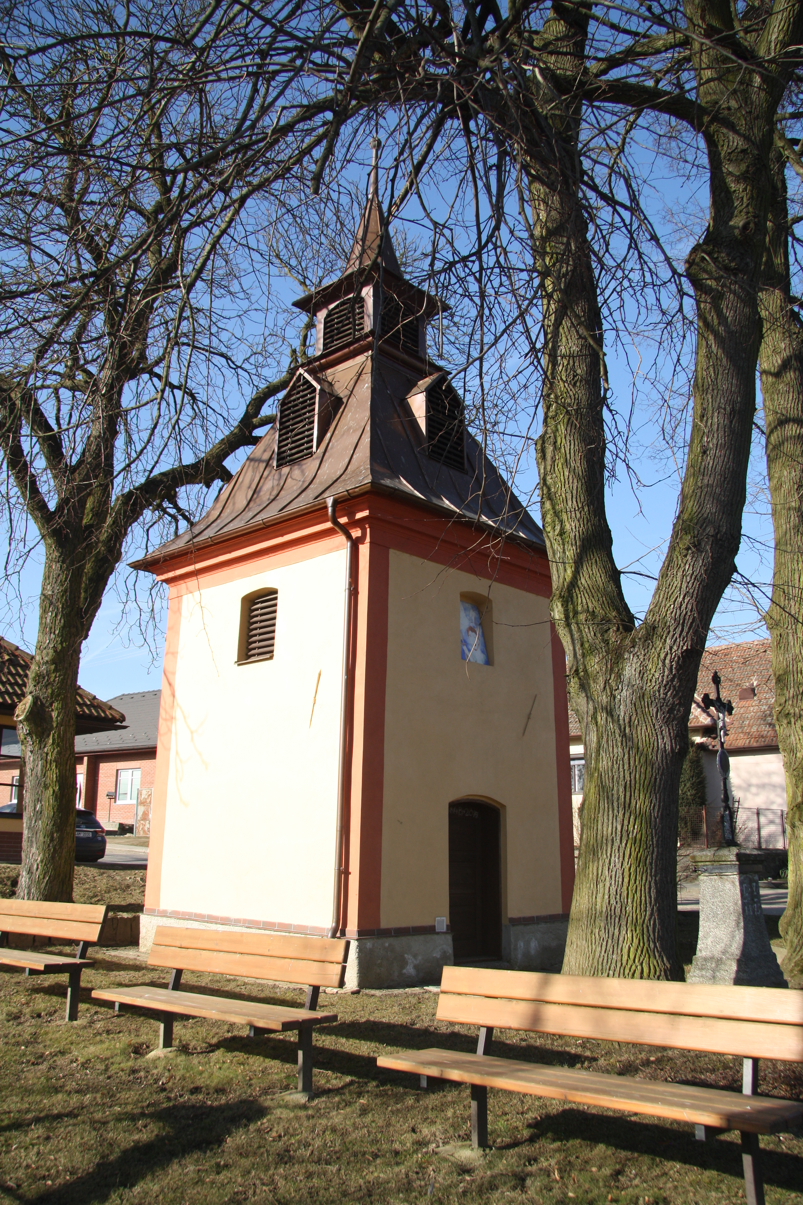 Overview of chapel of Saint Mary of Horní Heřmanice in 2015, Třebíč District.